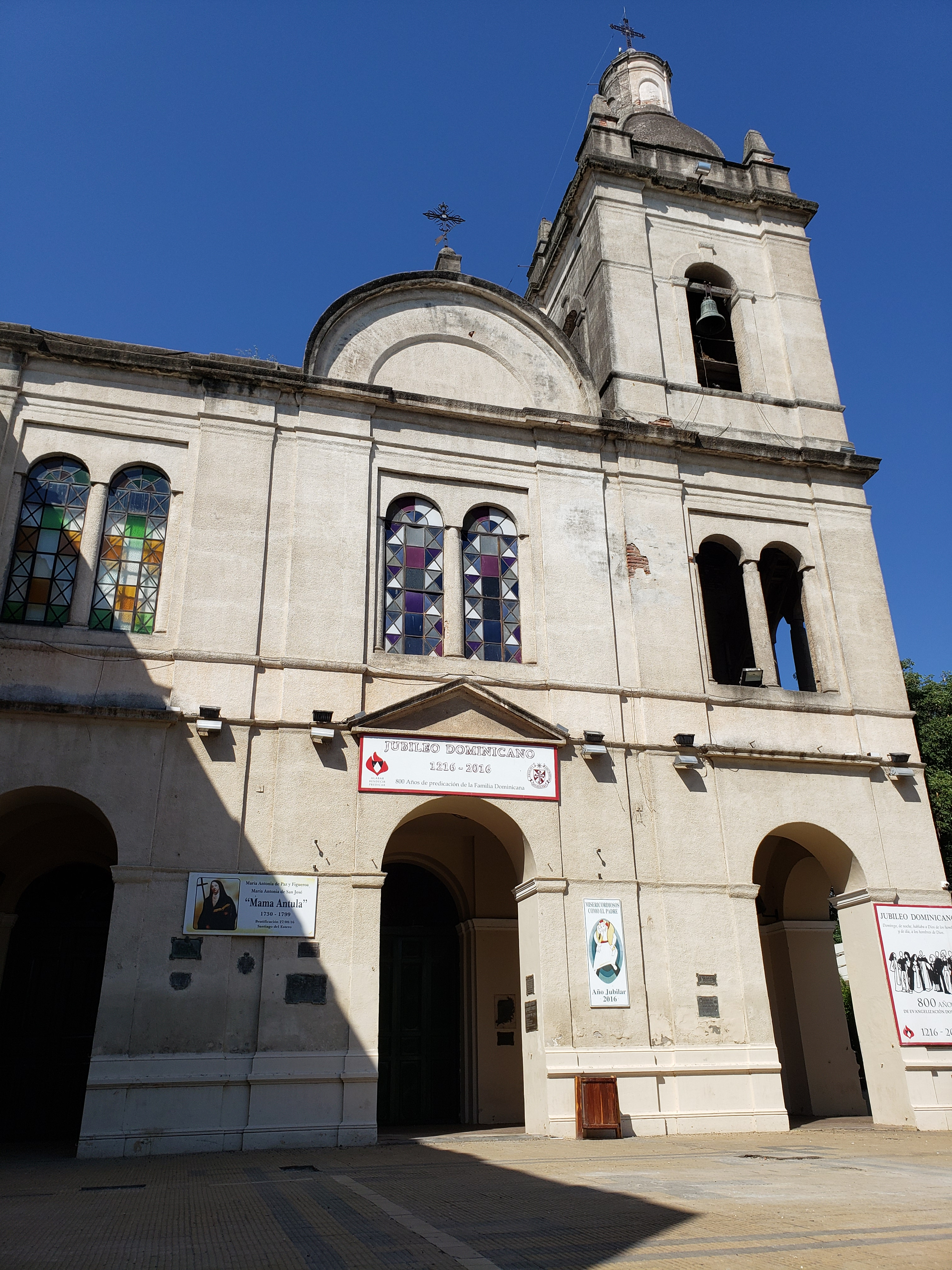 Santo Domingo's church in Santiago del Estero city, Argentina.